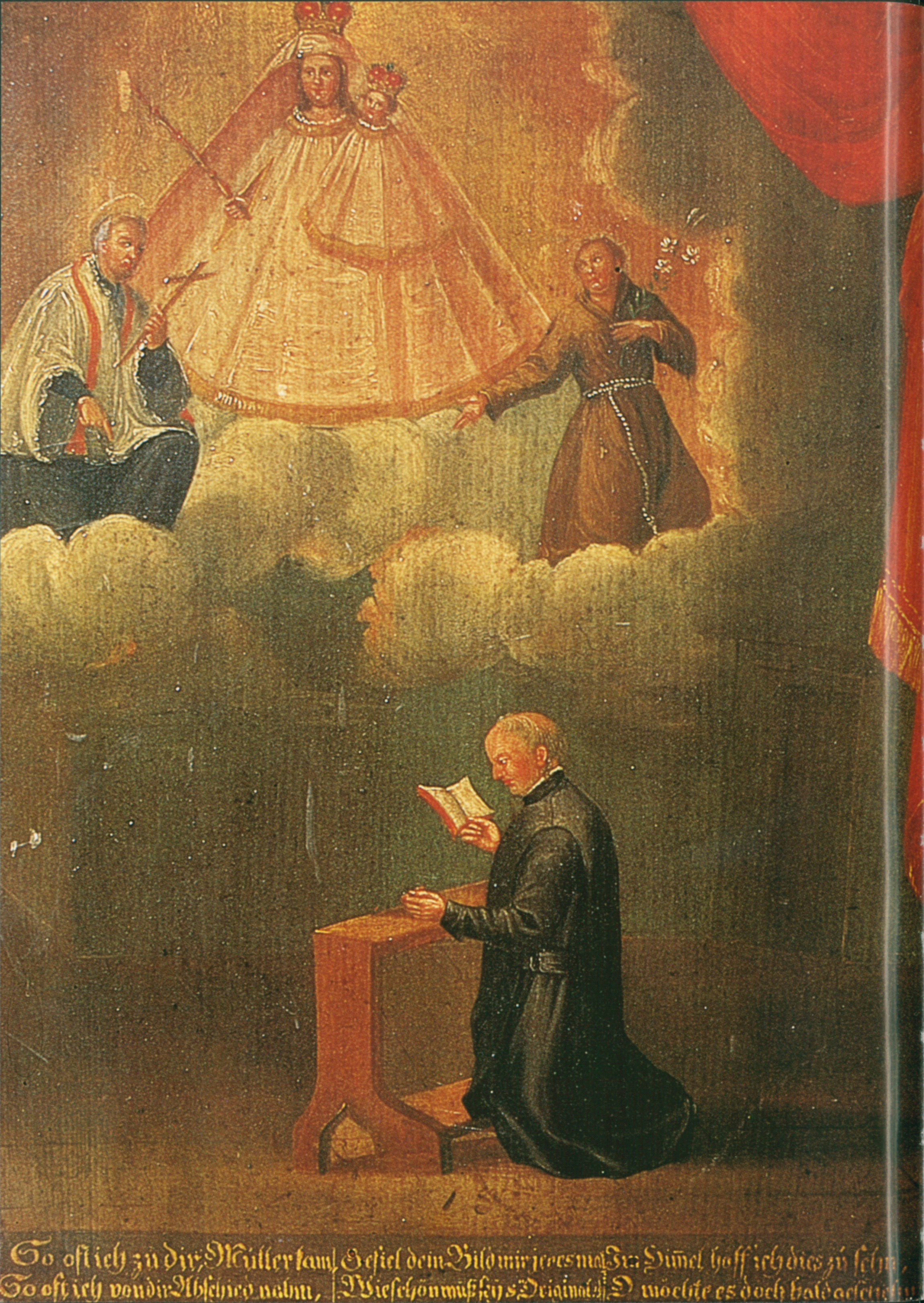 Maria in der Tanne Triberg votive picture showing Clemens M;aria Hofbauer, 1805